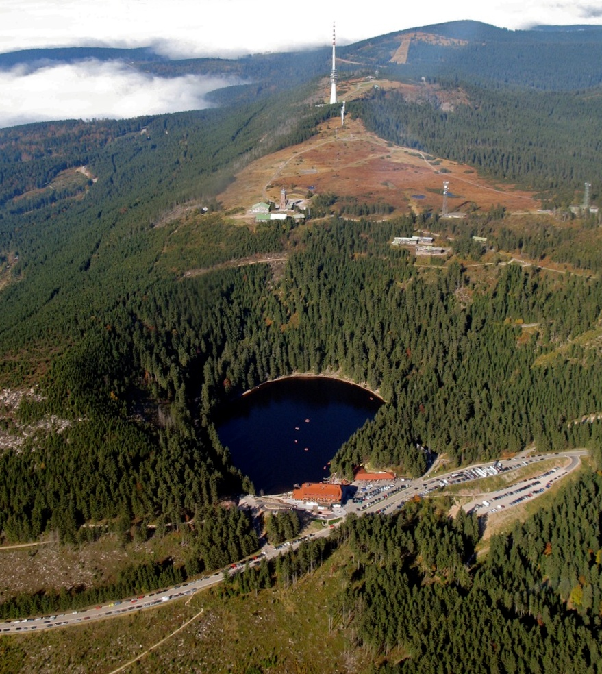 Picture taken from the pilot's seat during a flight with Cessna 172 D-ESYT at 5500 feet en route from EDTL to EDFM after we had cancelled IFR. The image gives a good impression of the topography of the Hornisgrinde in the northern Black Forest and the Mummelsee and reveals why the site has been chosen many times during the 20th century for military and communication purposes.